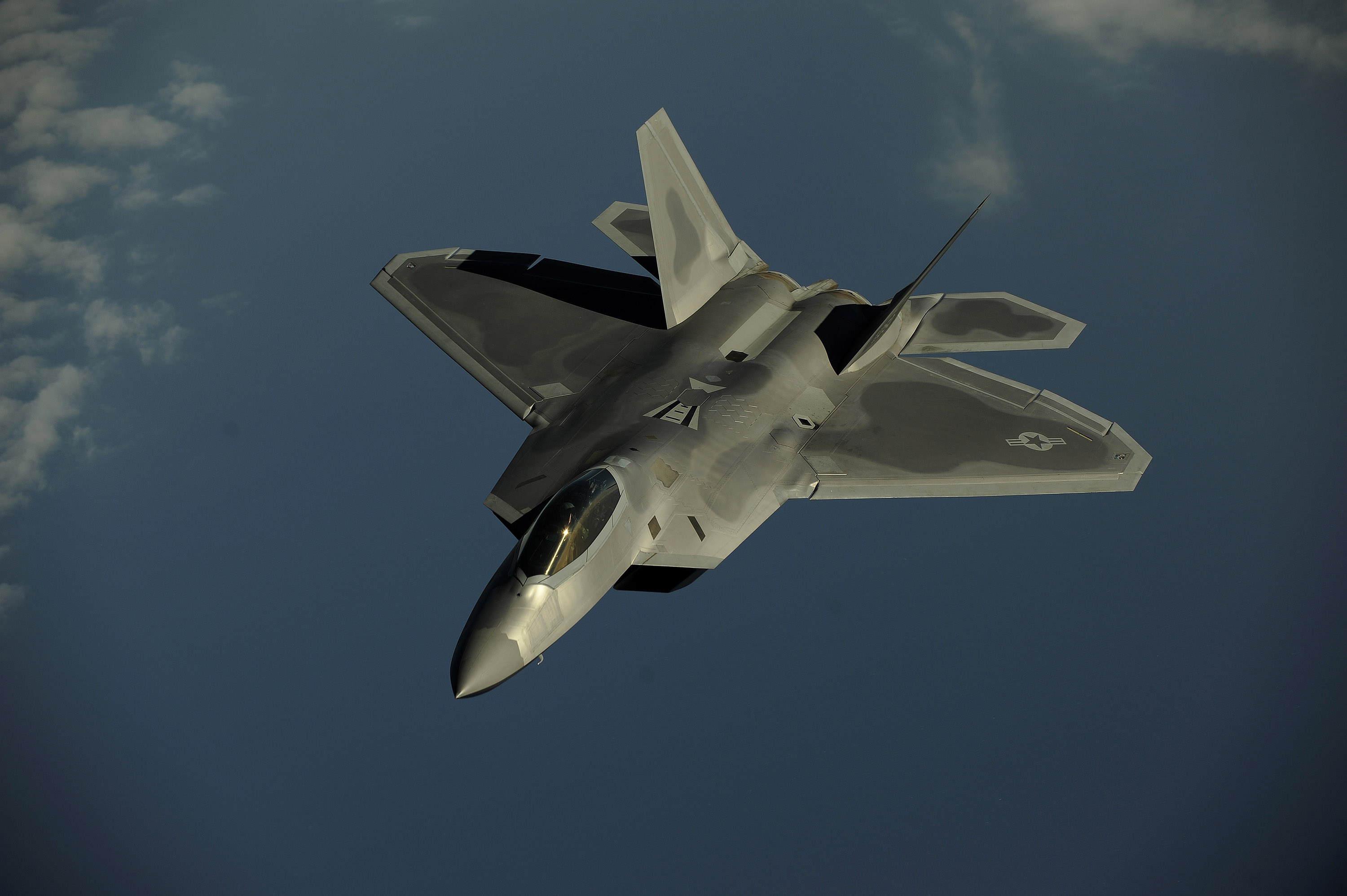 An F-22 Raptor flies over Kadena Air Base, Japan, Jan. 23 on a routine training mission. The F-22 is deployed from the 27th Fighter Squadron at Langley Air Force Base, Va.